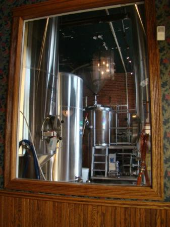 Brewing equipment at the South Shore Brewery, in Ashland, Wisconsin.